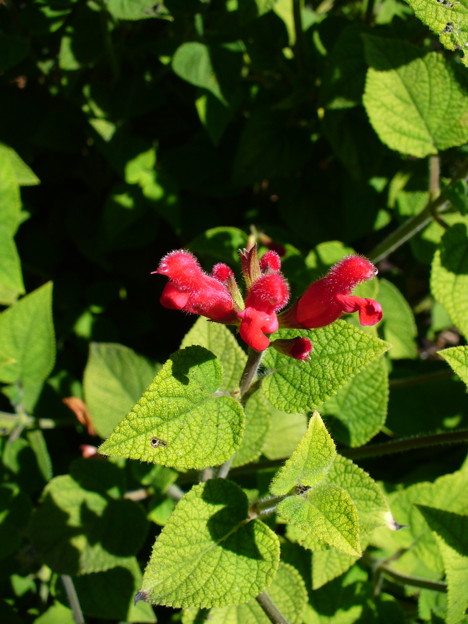 Botanic Garden, Cabrillo College, Aptos, CA. Photographed during the Salvia Summit, 1-2 Aug 2008.